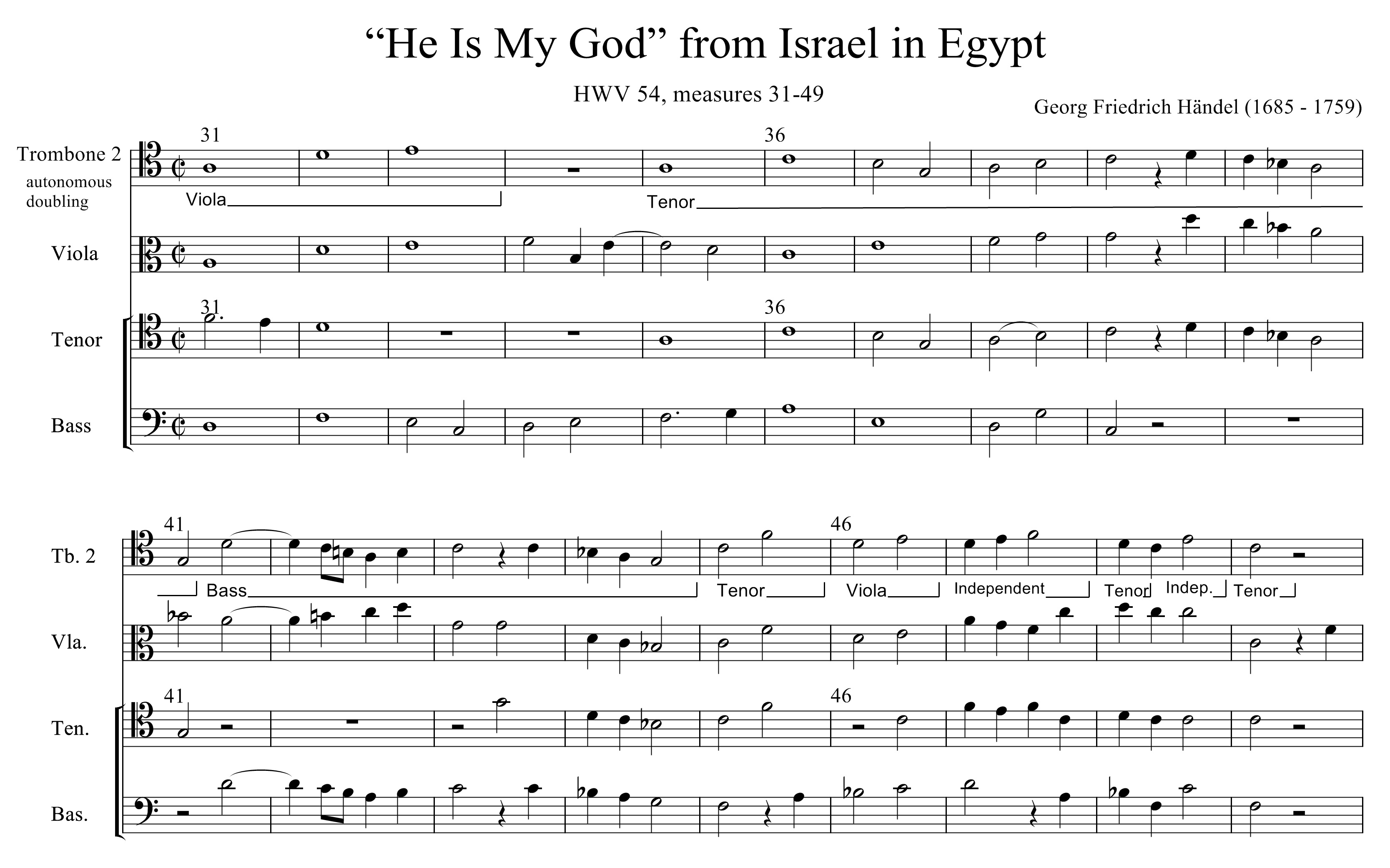 “He Is My God” from Israel in Egypt HWV 54, m. 31-49 composed by Georg Frideric Händel.